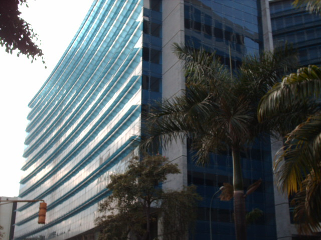 Bansco Seguros-Centro Galipán, Caracas-Venezuela